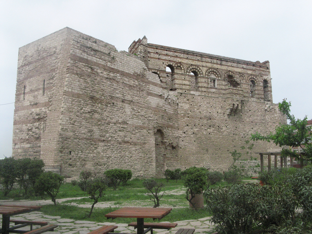 Last residence of the Byzantine Emperors